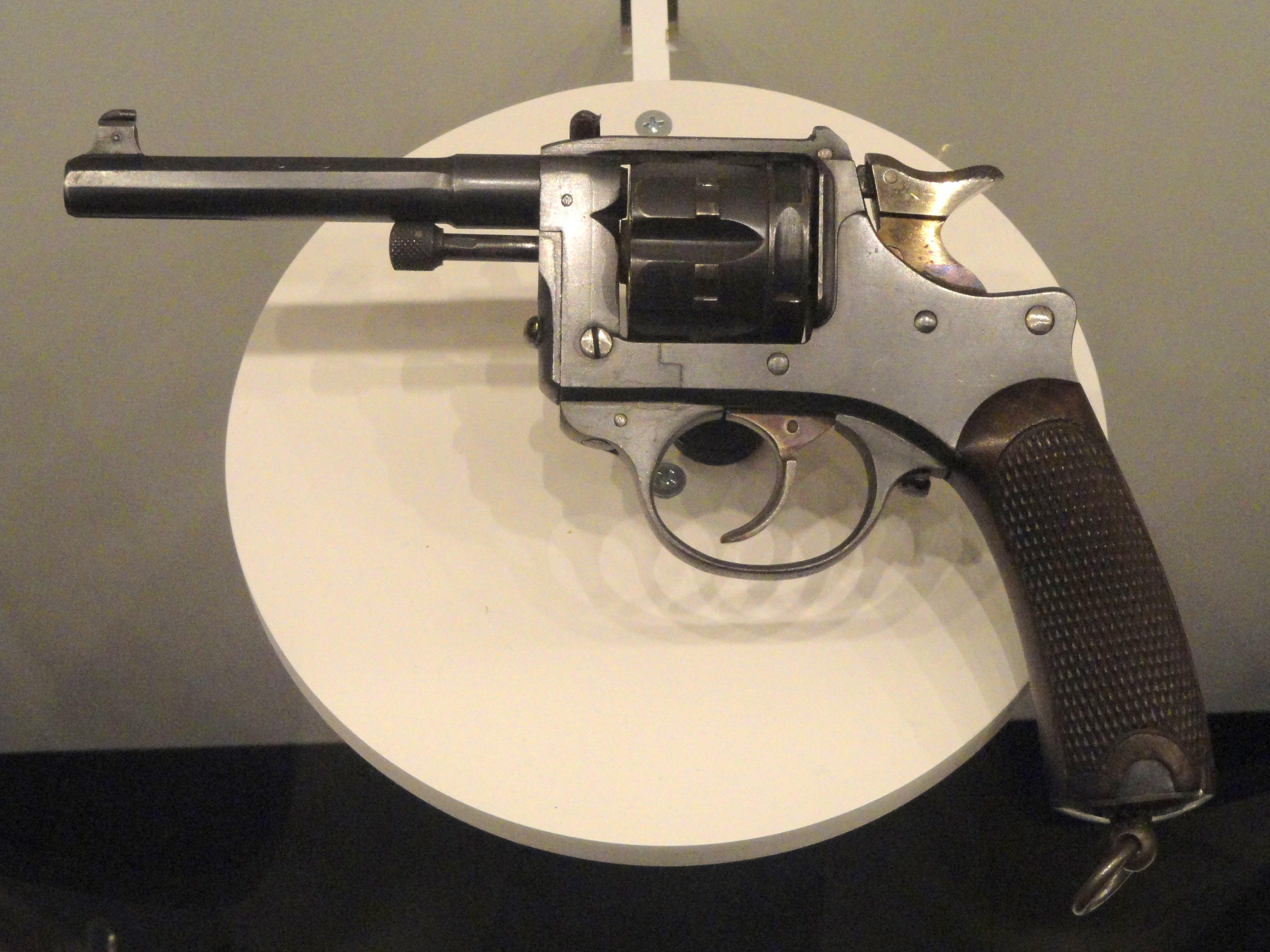 Handgun exhibited in the National World War I Museum at the Liberty Memorial, 100 W. 26th Street, Kansas City, Missouri, USA.